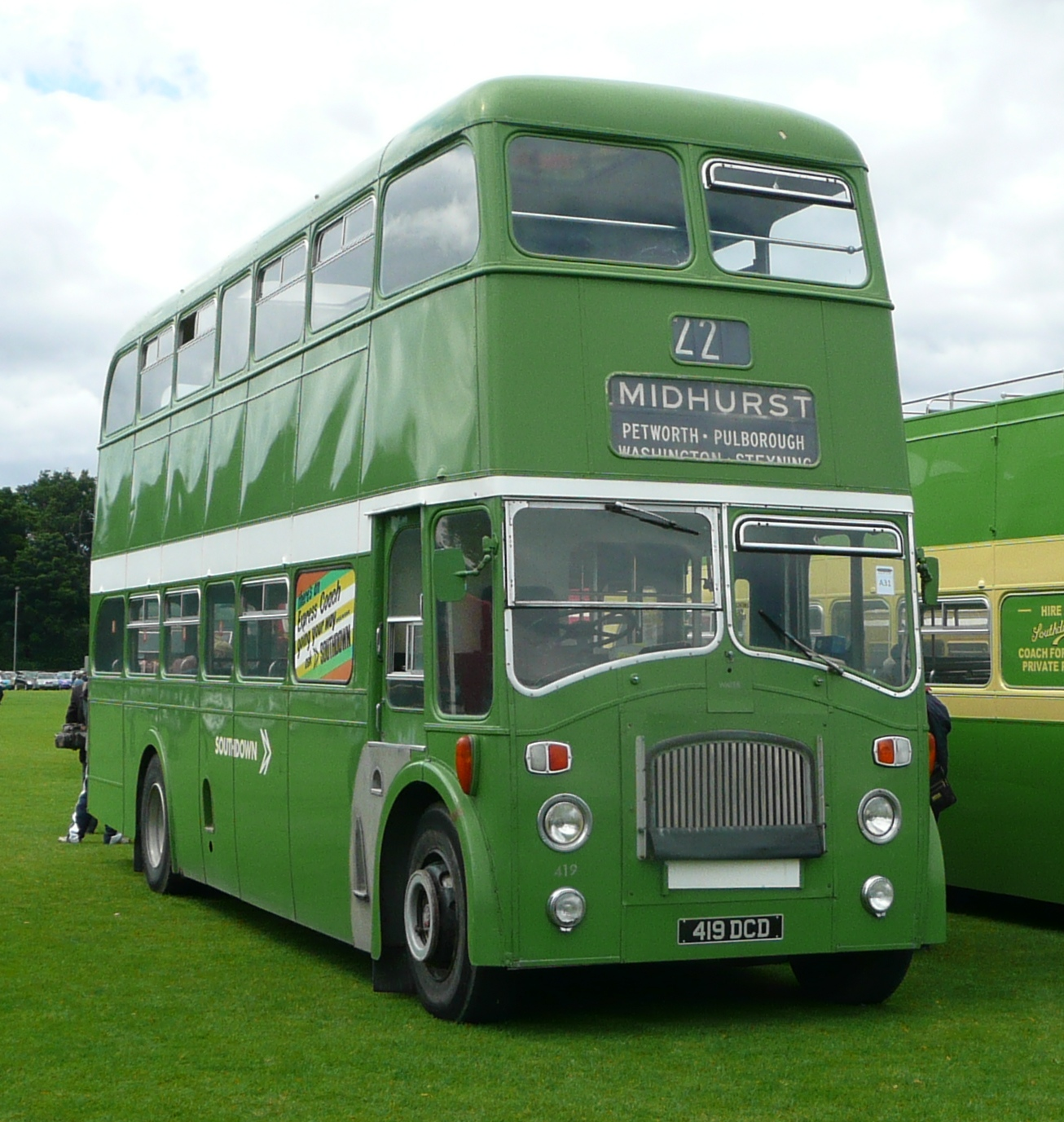 A now preserved Leyland Titan, at the 2008 Alton Bus Rally. It was previously run by Southdown Motor Services.